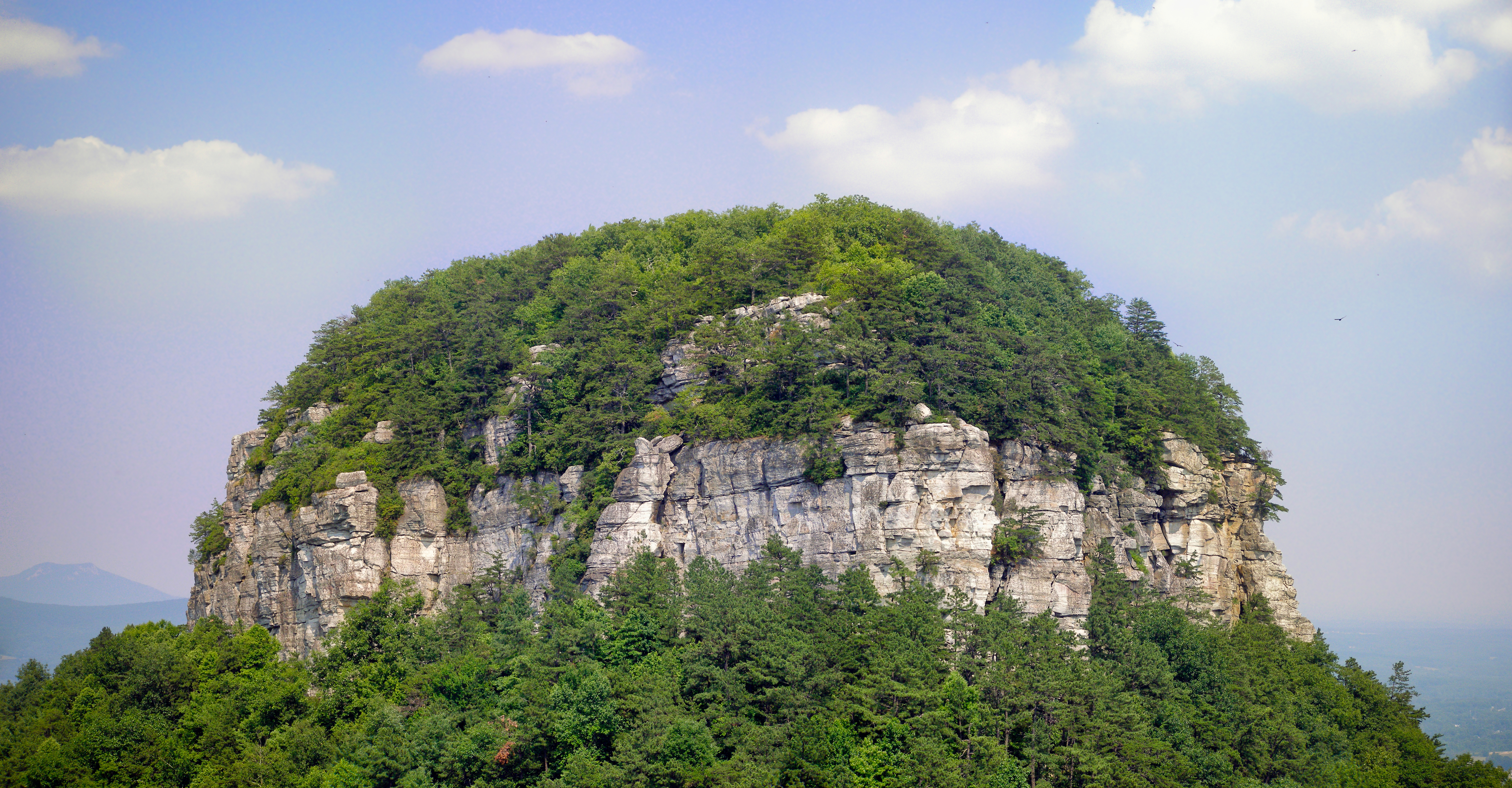 Big Pinnacle of Pilot Mountain as seen from Little Pinnacle